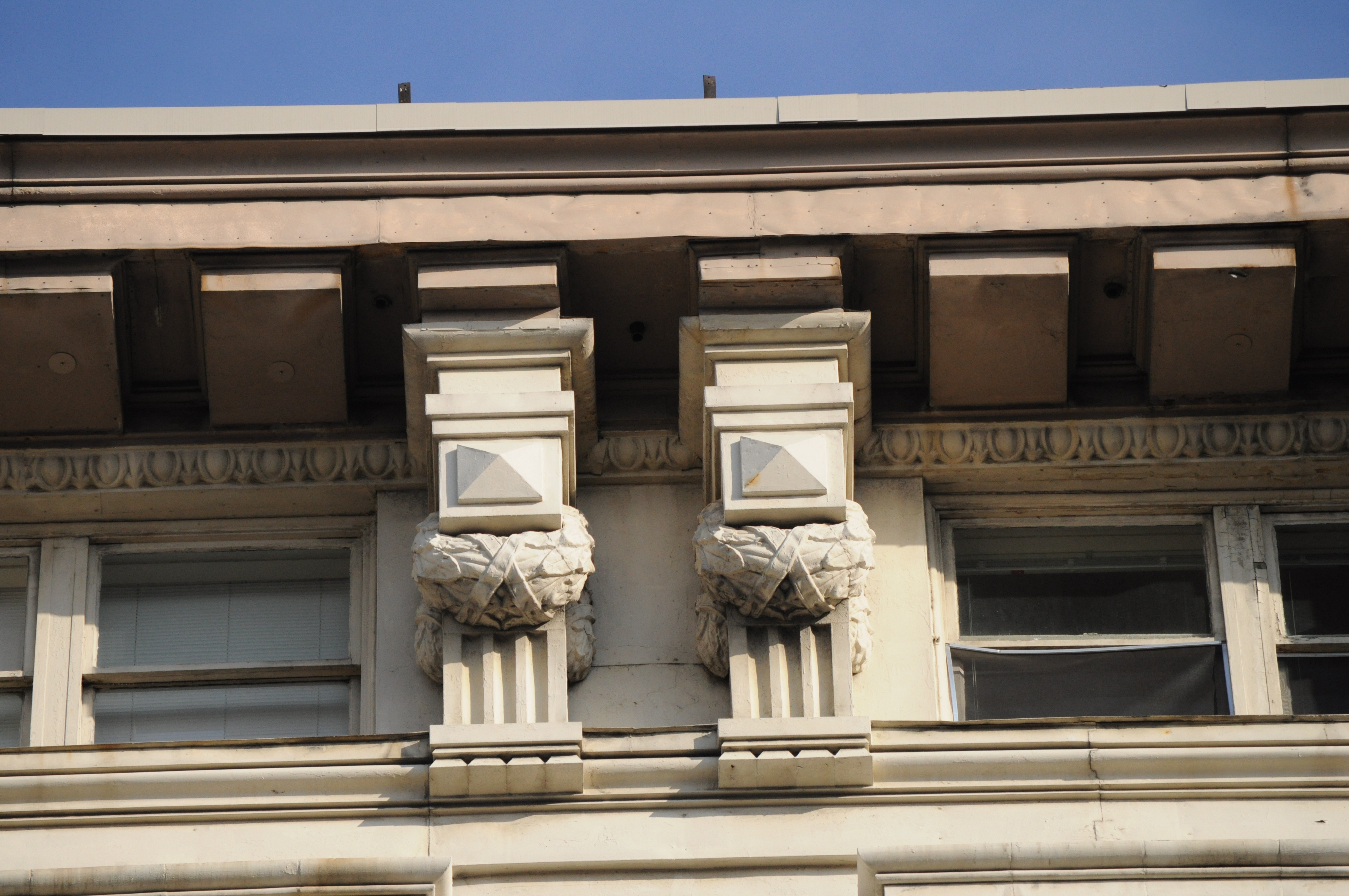 Cornice detail, Downtowner Hotel, originally New Richmond Hotel, later Northern Pacific Hotel, 308 4th Ave., S., Seattle, Washington, USA.